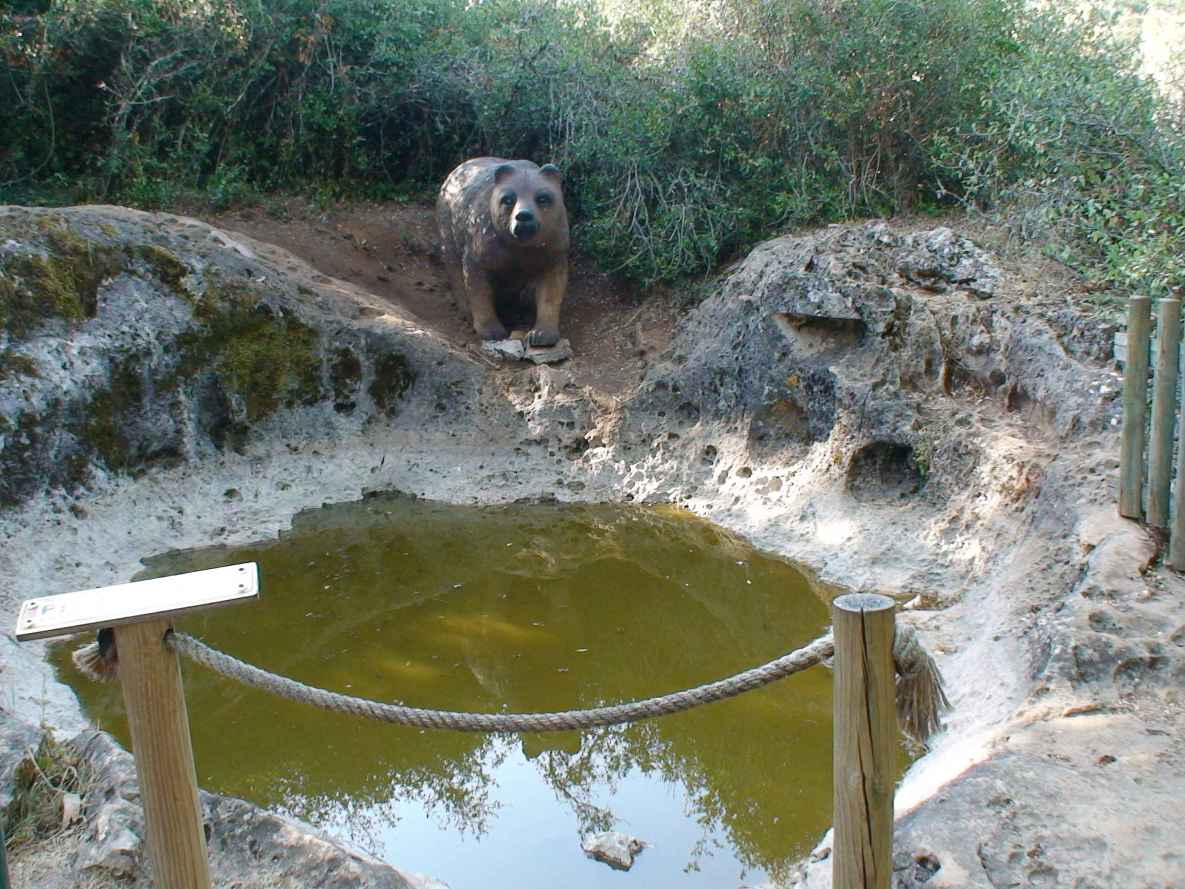 "Pia do Urso" ('the bear's waterhole'), a sensory park in São Mamede, Batalha, Portugal.